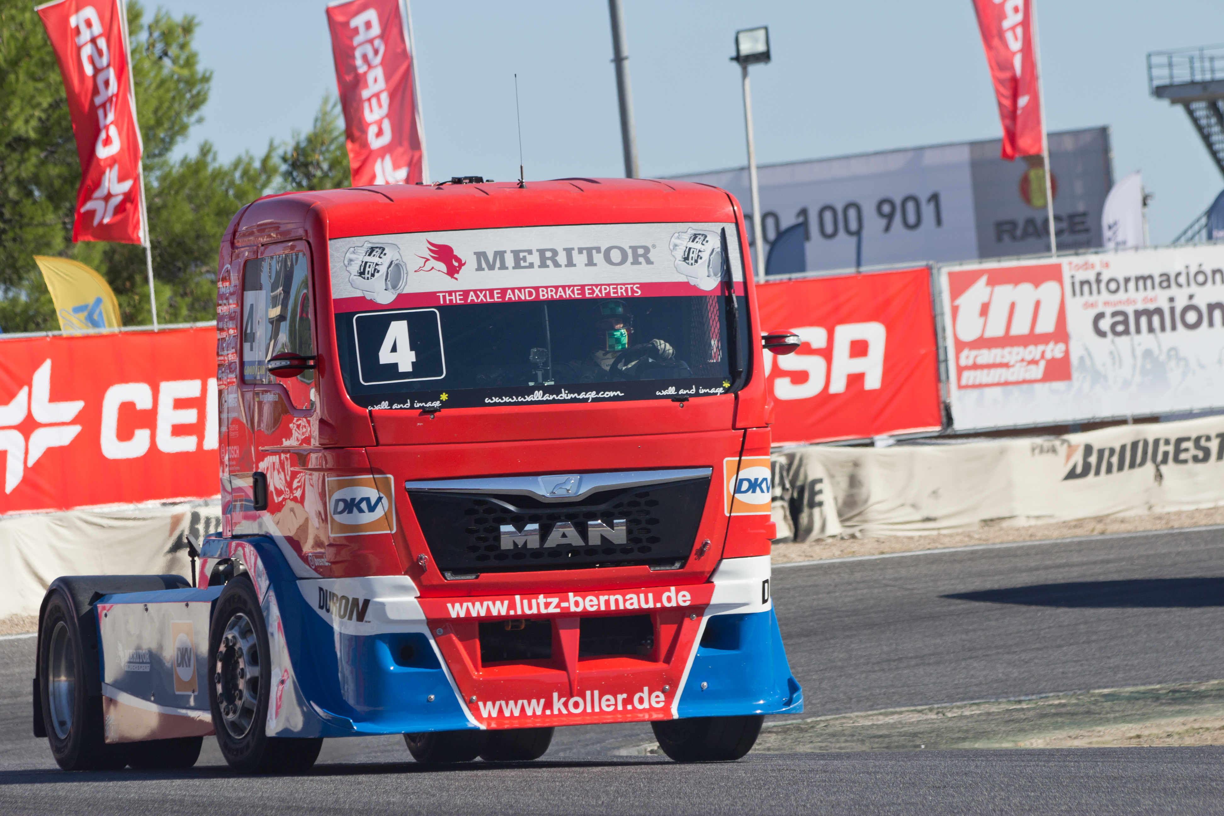 Truck pilot Markus Östreich at the Spain Truck GP 2013.